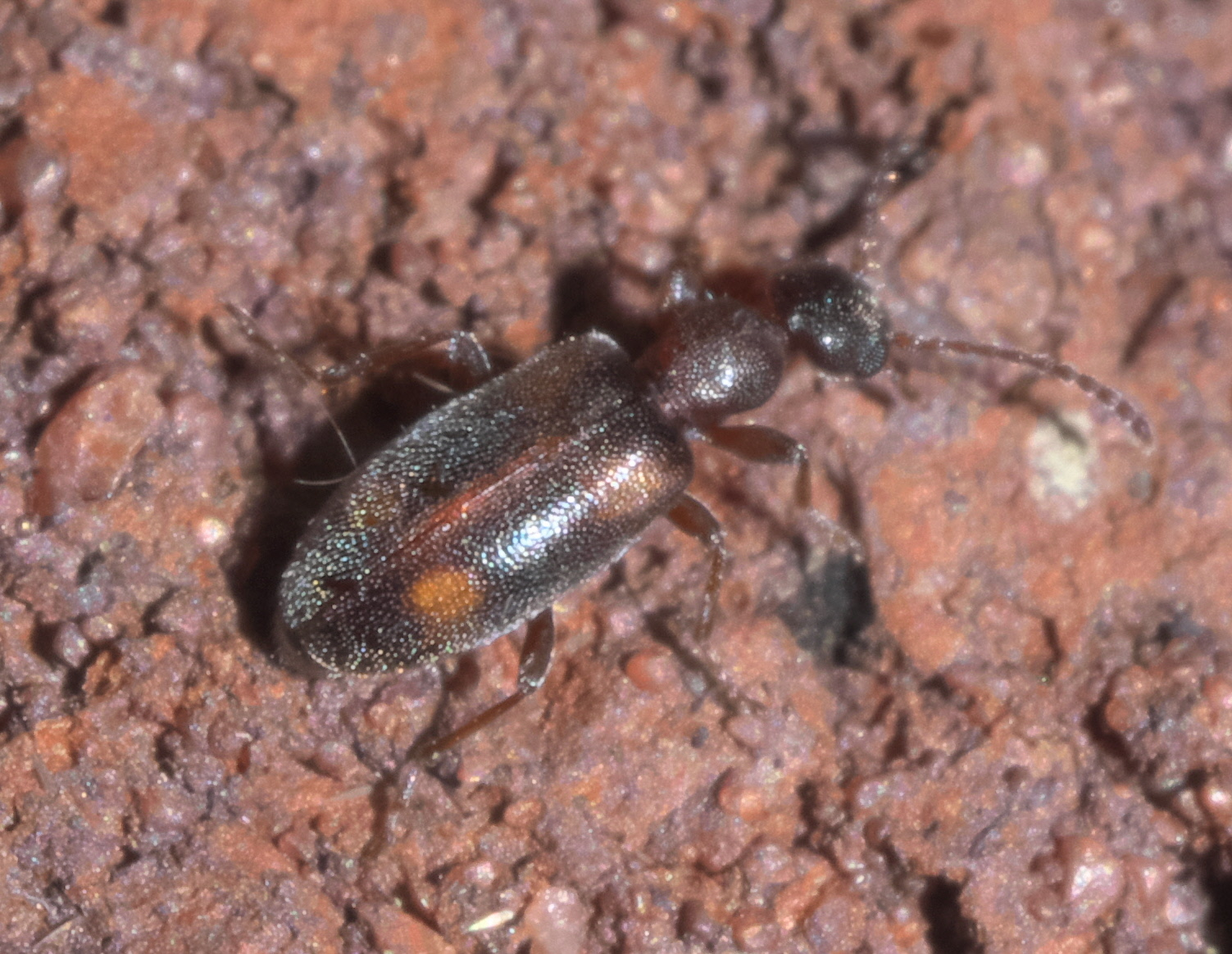 Anthicus cervinus, Family: Antlike Flower Beetles, Size: 3.1 mm, ID Confidence: 98